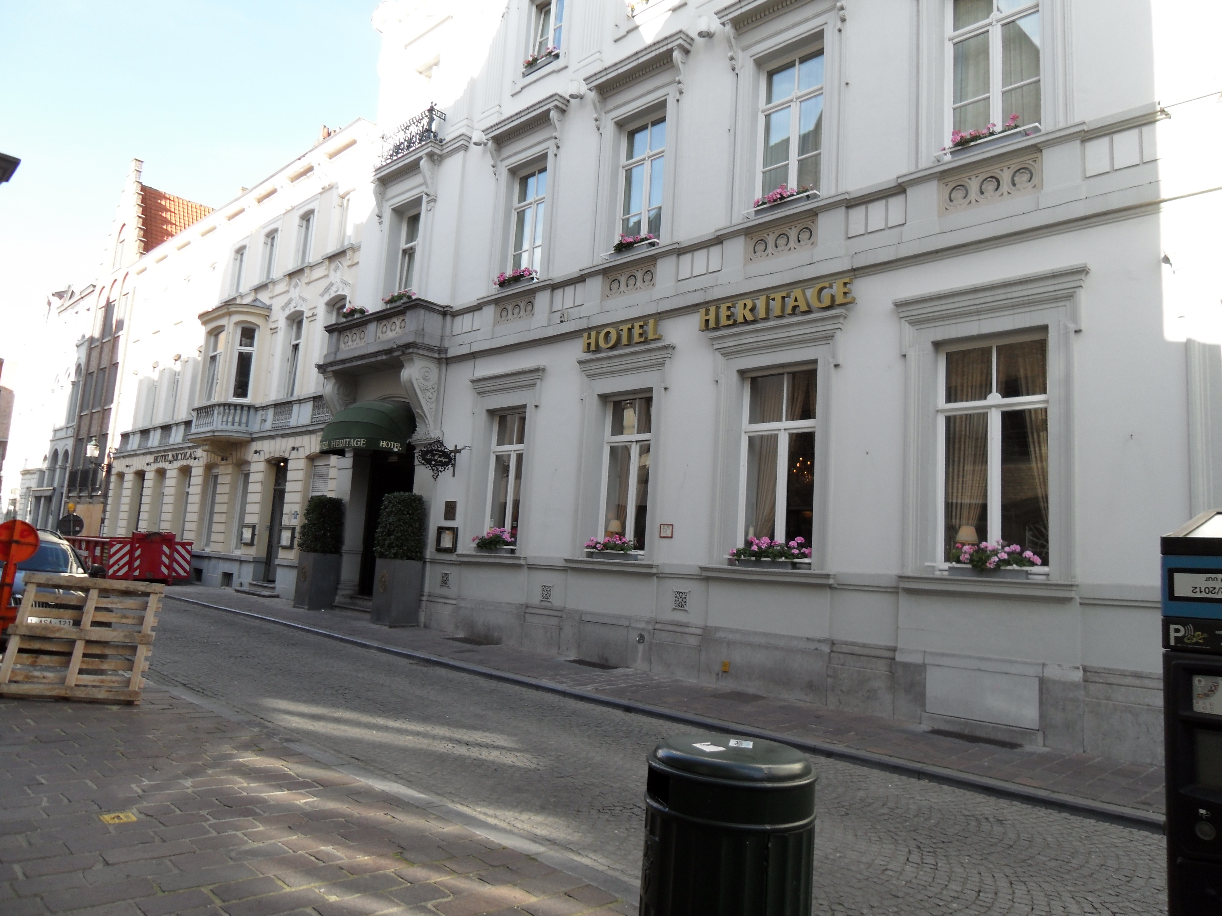 Niklaas Desparsstraat in Bruges